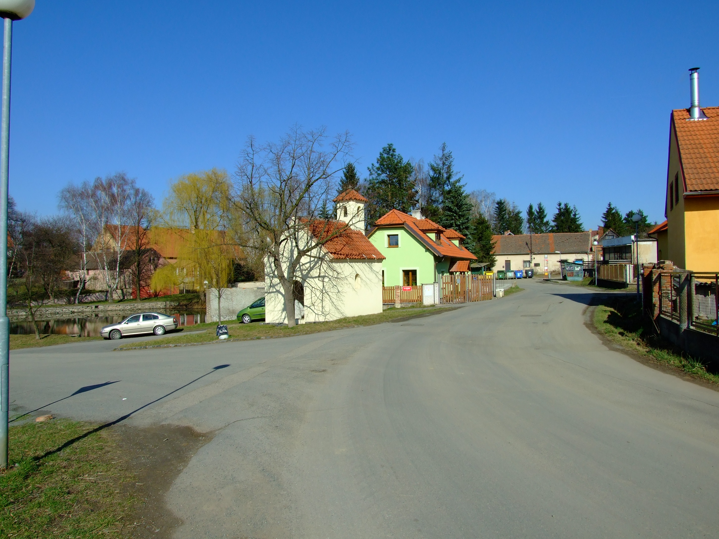 Village Lhota, part of Dolní Břežany, Central Bohemian district, CZ